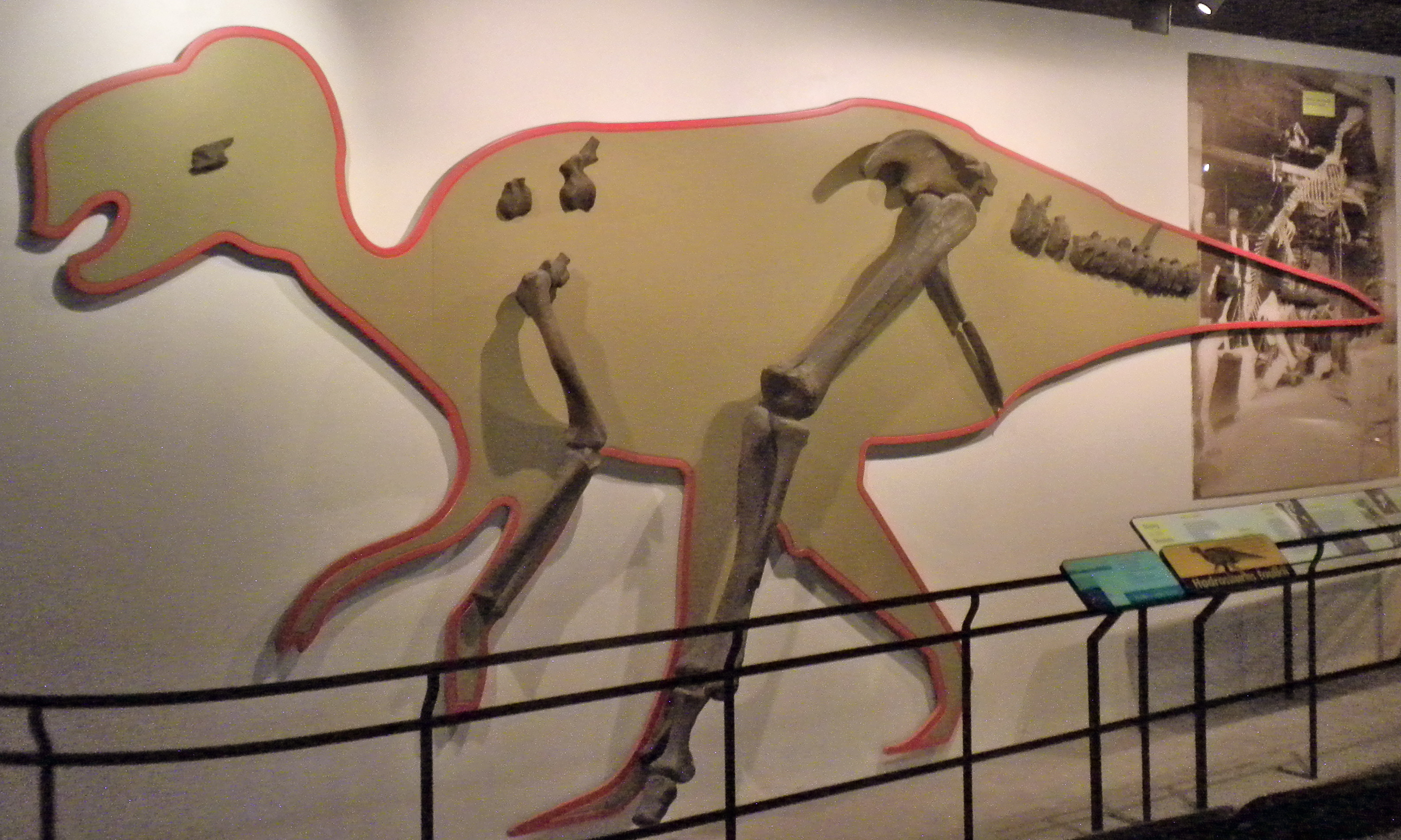 Display of the bones of the Hadrosaurus at the Philadelphia Academy of Natural Sciences. 35 bones of the Hadrosaurus were dug up in the 1800s and formed the first "fairly complete dinosaur skeleton" this display shows which of the bones were found.